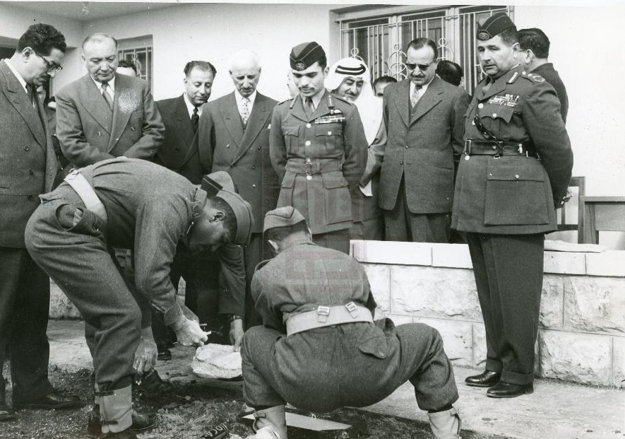 King Hussein inaugurating police station in Abdali district of Amman, 24 December 1956